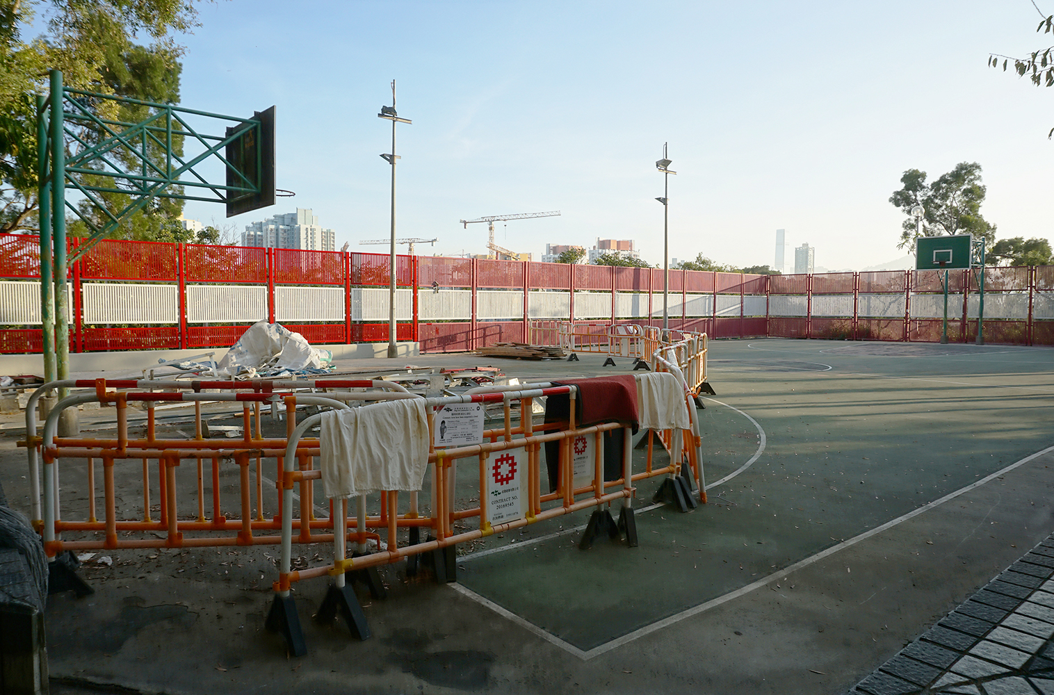 Chak On Estate in Tai Wo Ping, Hong Kong.